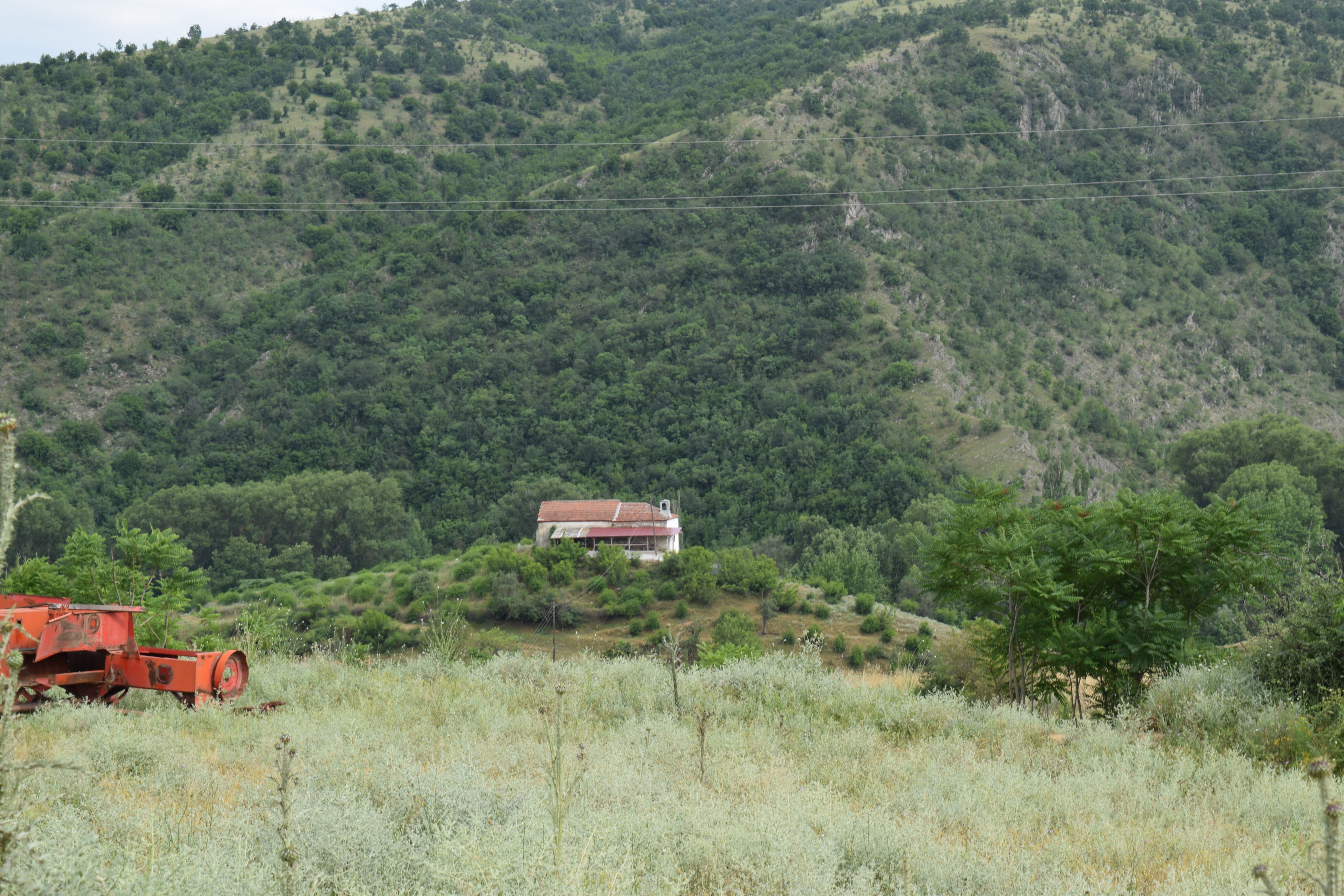 View of the St. Elijah Church in the village Busilci